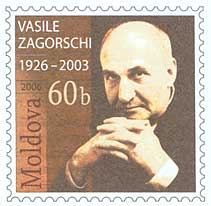 Stamp of Moldova